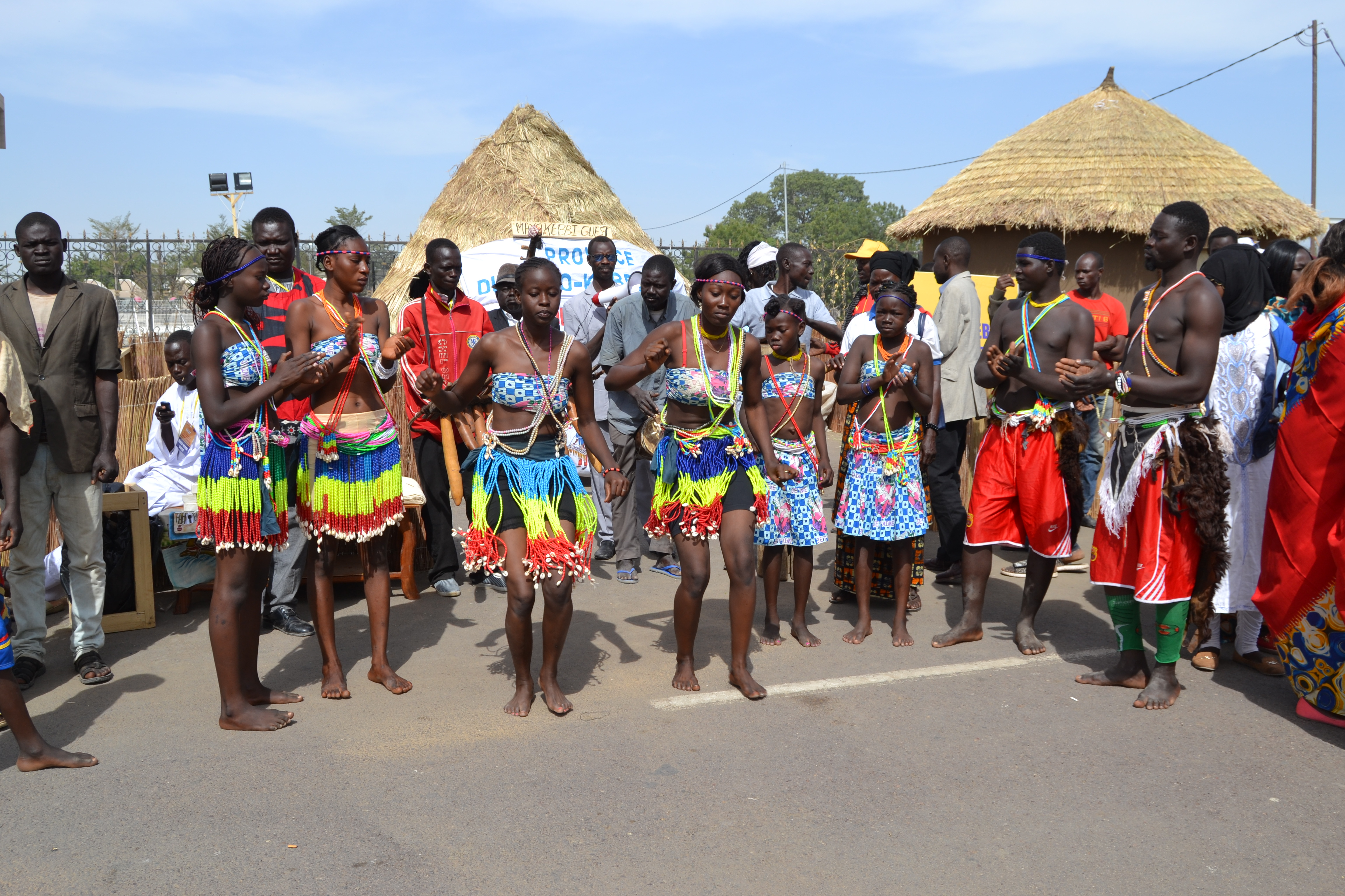 This is an image with the theme "Play" from: Chad